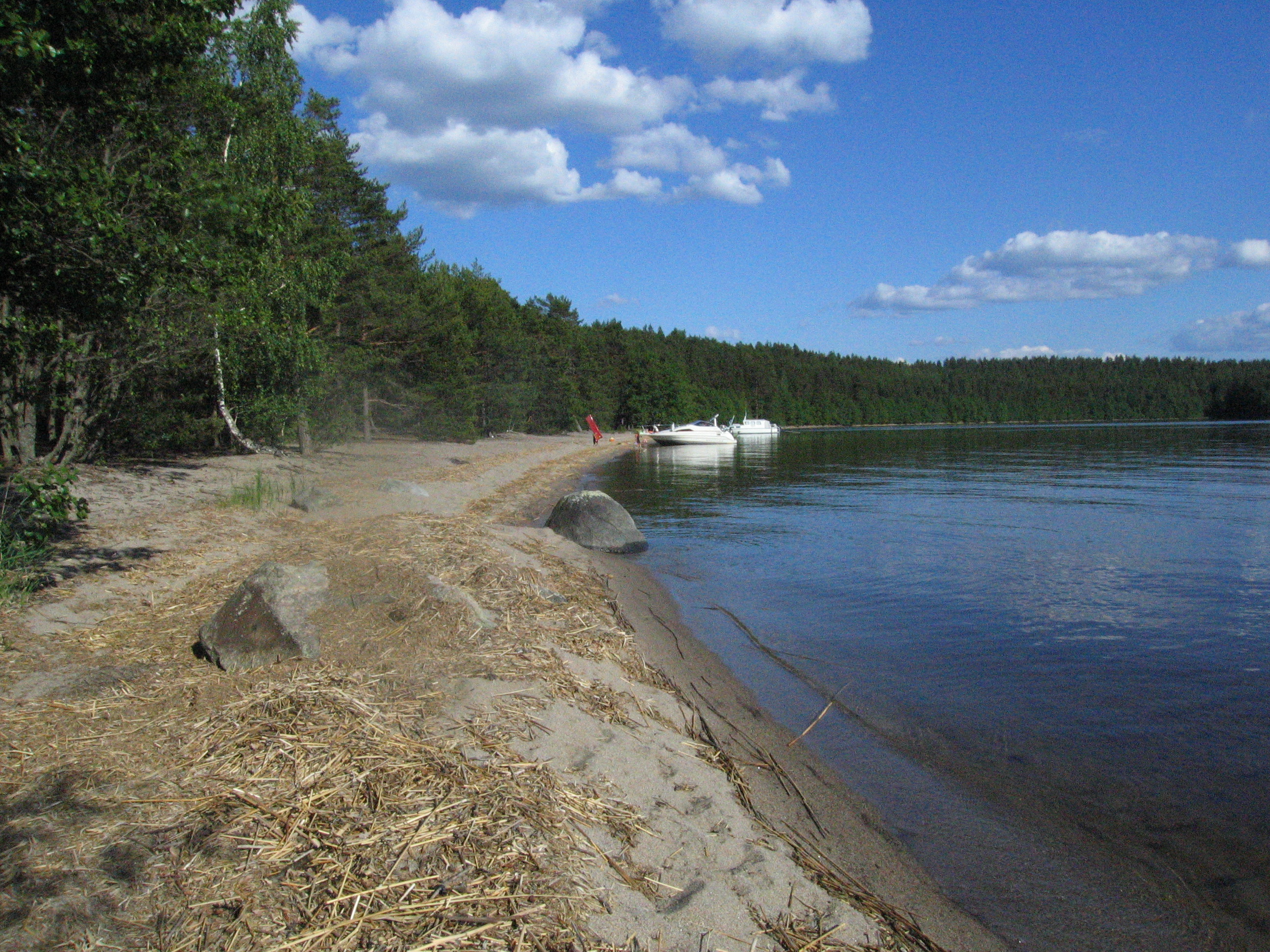 Päijänne National Park, Finlad. Kelvenne island